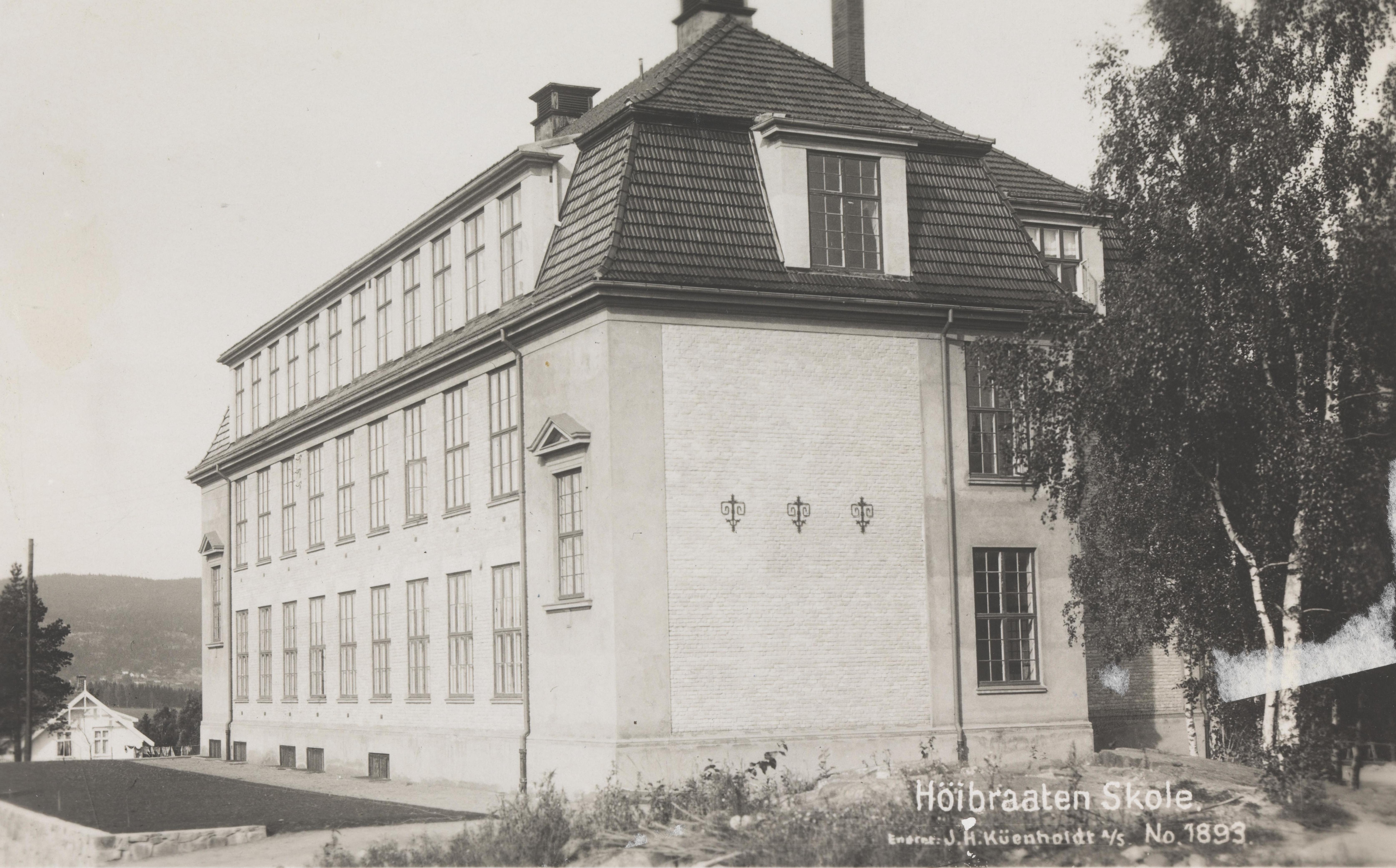 Høybråten school in Oslo, Norway from 1922, architect Harald Bødtker.